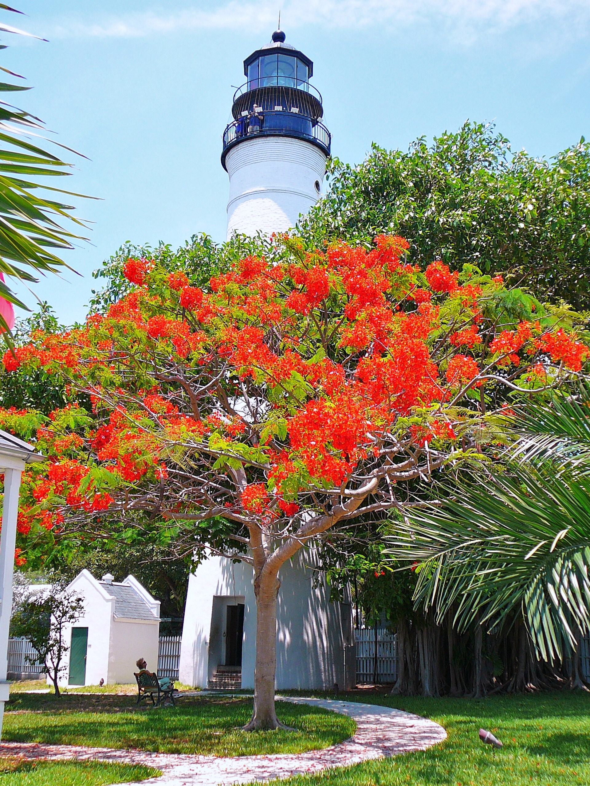 The Key West Light in Downtown Key West, Florida, Florida, United States. Digital photo taken by Marc Averette.